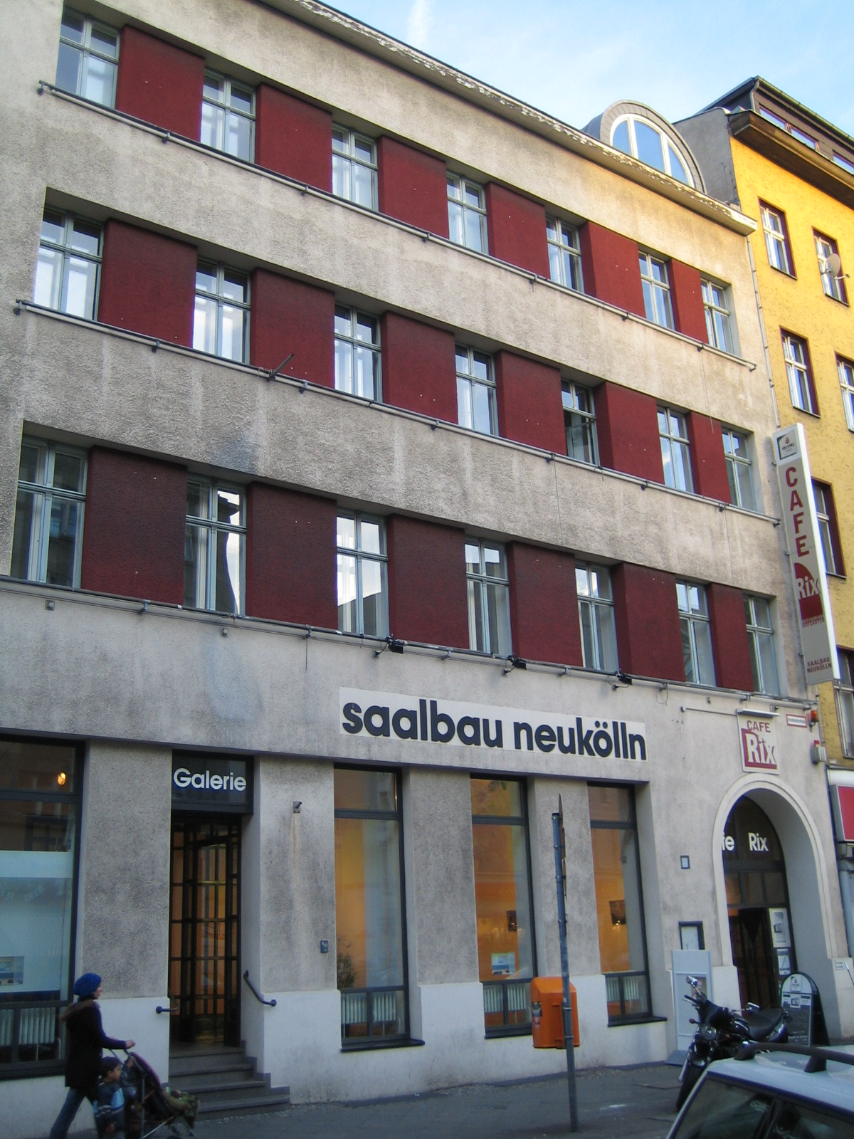 Saalbau Neukölln in the Karl-Marx street.